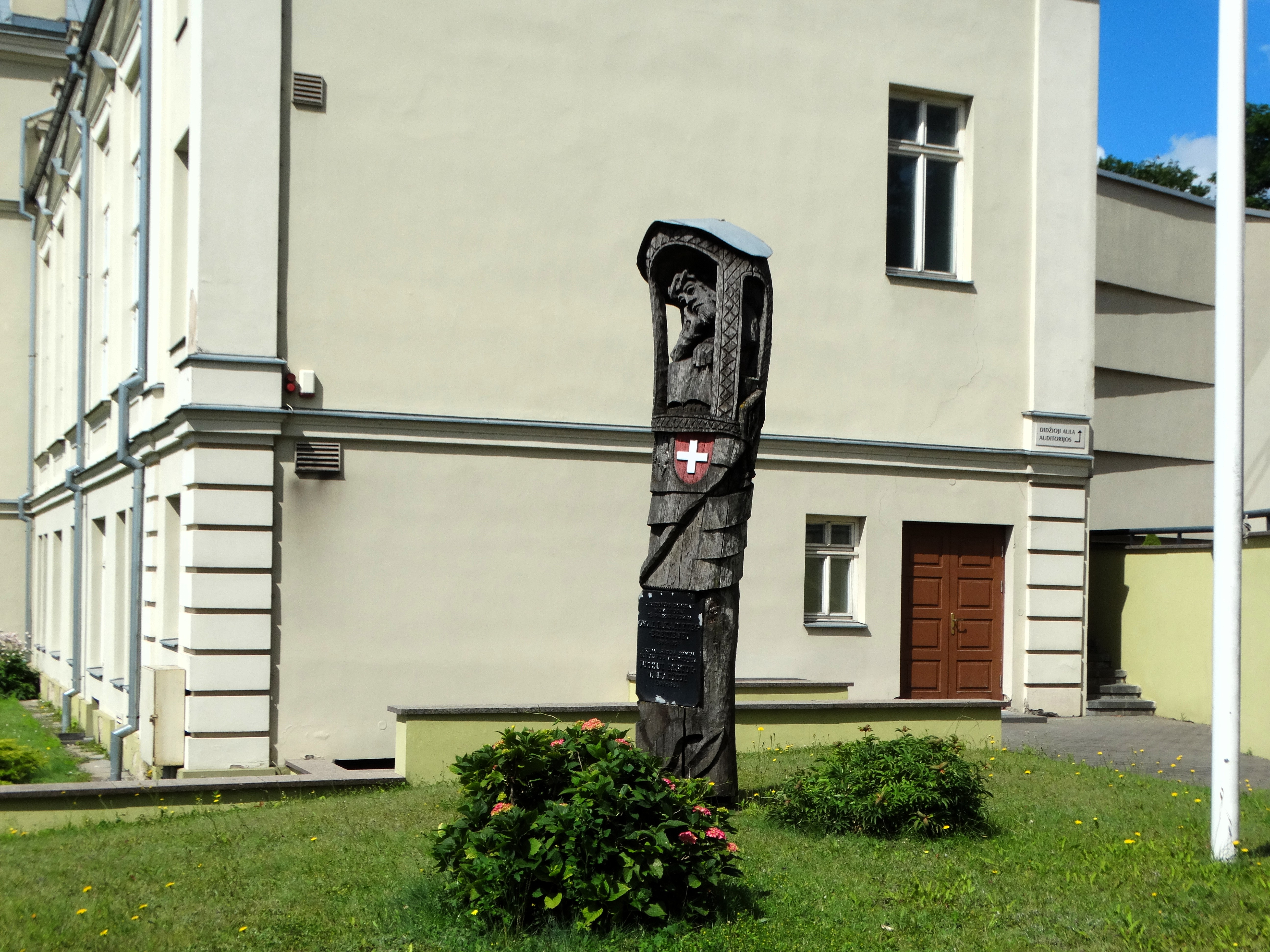 Society of st. Zita, Kaunas, Lithuania